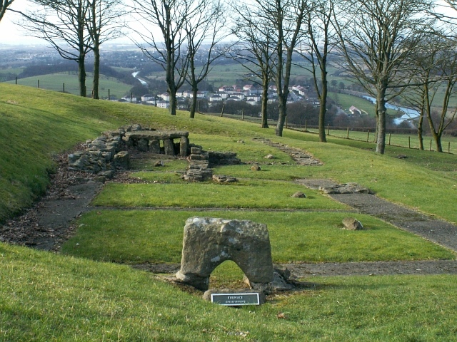 Barr Hill Roman Baths. Looking west along the length of the baths and on towards Twechar and the Forth Clyde Canal. The baths were part of Barr Hill Roman fort on the Antonine Wall